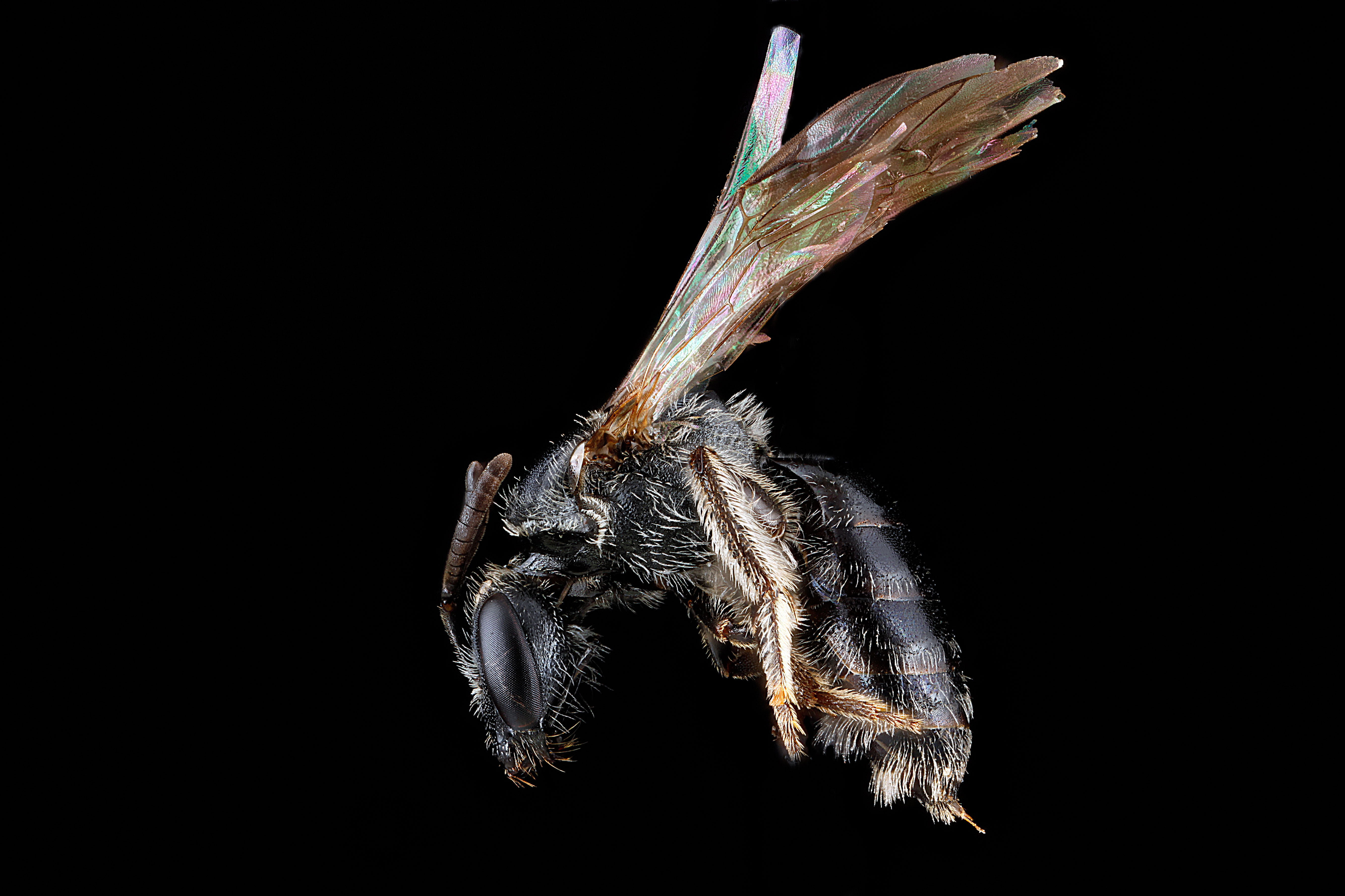 Lasioglossum foxii, Maryland, Female, Garrett County, July 2012